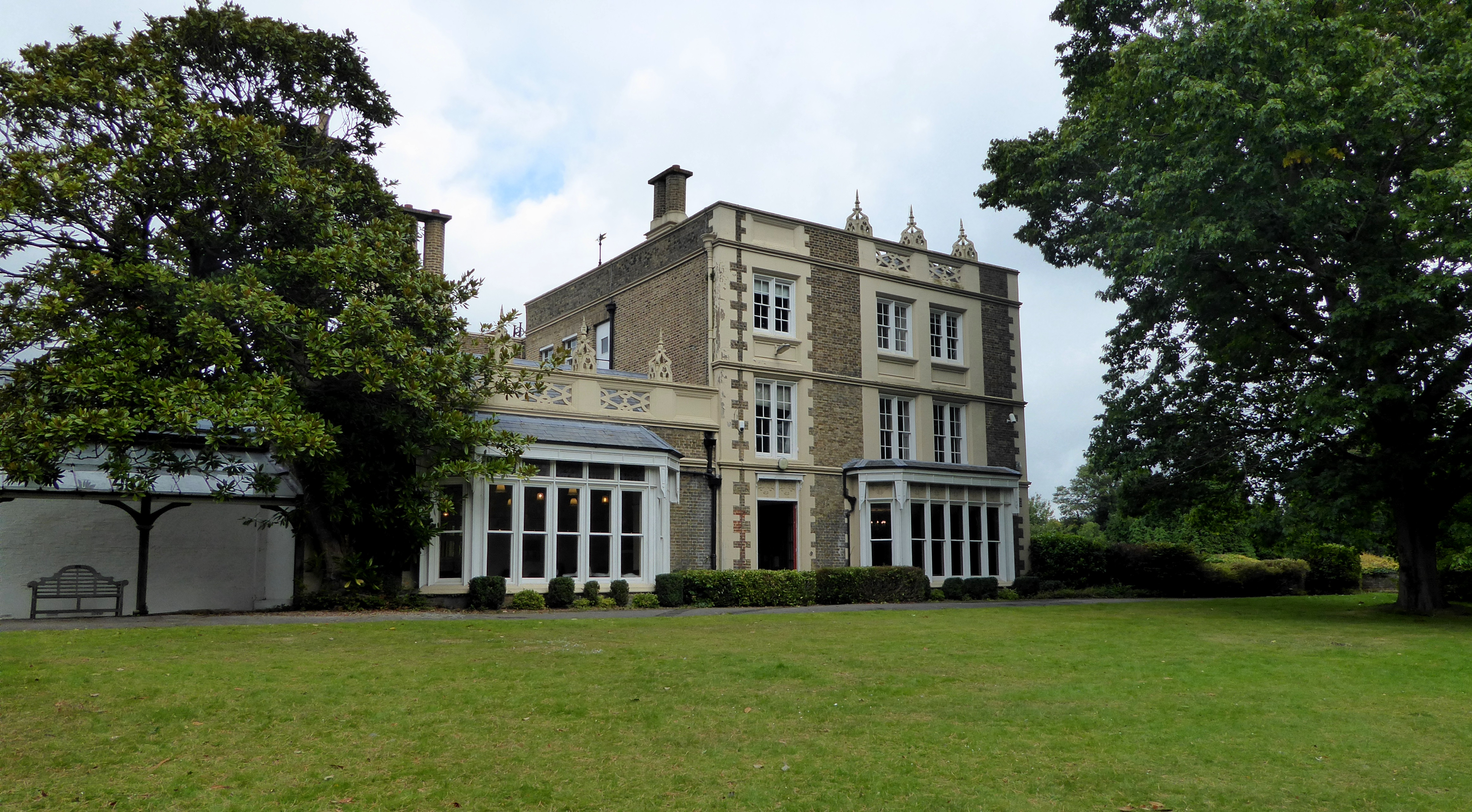 Lamorbey House in southeast London. Taken from the right-hand side of the building